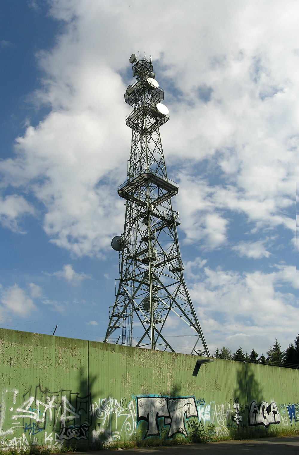 The Kolbenberg in the Taunus